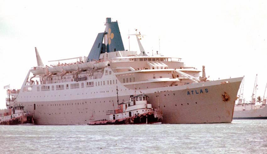 The cruise ship Atlas arrive in Miami's harbor in November 1974.